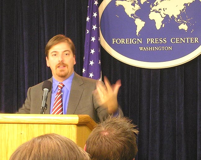 Chuck Todd, writer for National Journal and editor-in-chief of Hotline, delivering a briefing on "Countdown to the 2006 Midterm Elections" in Washington, D.C.